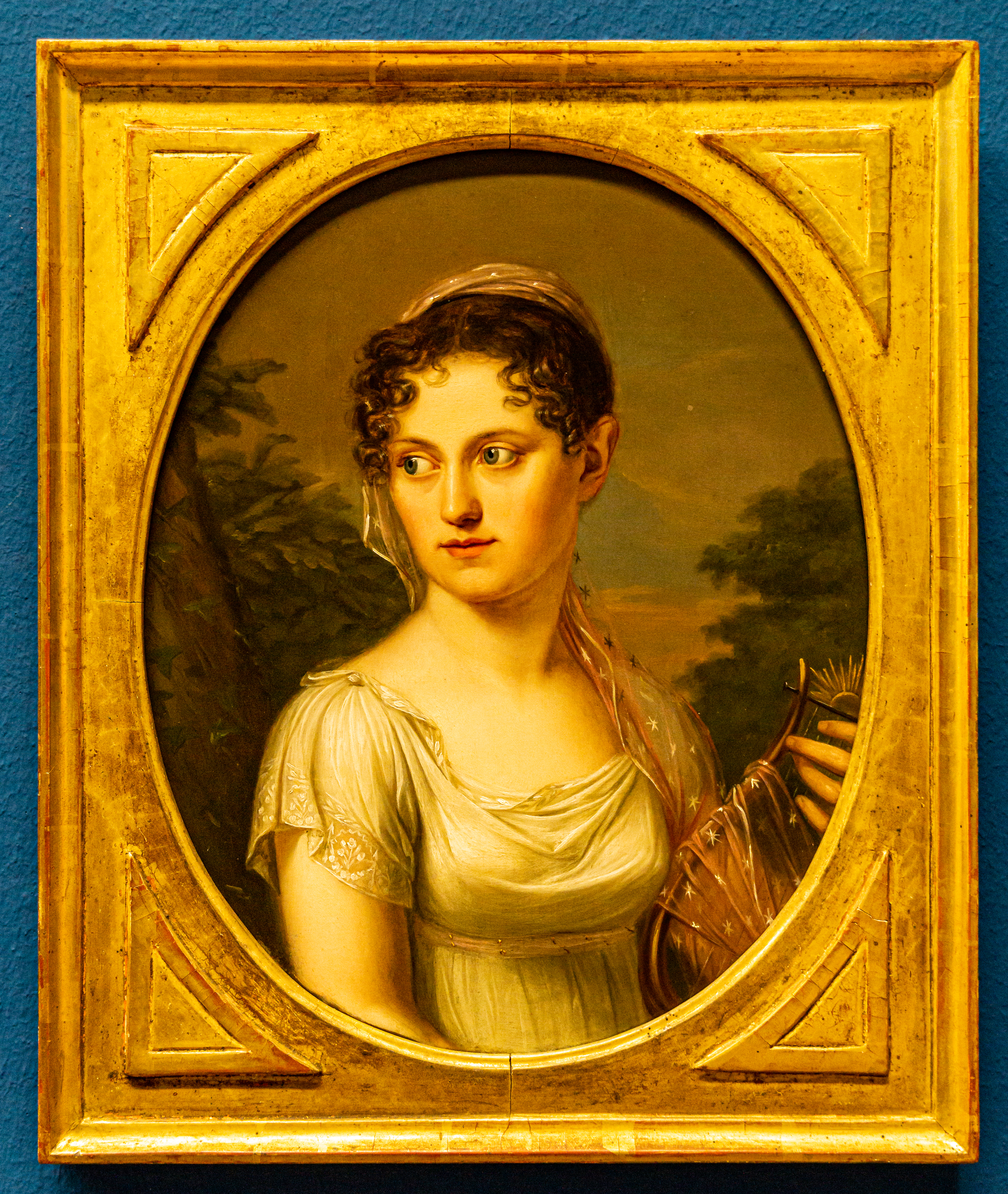 Sybilla Catharina Elisabeth Schücking, née Busch